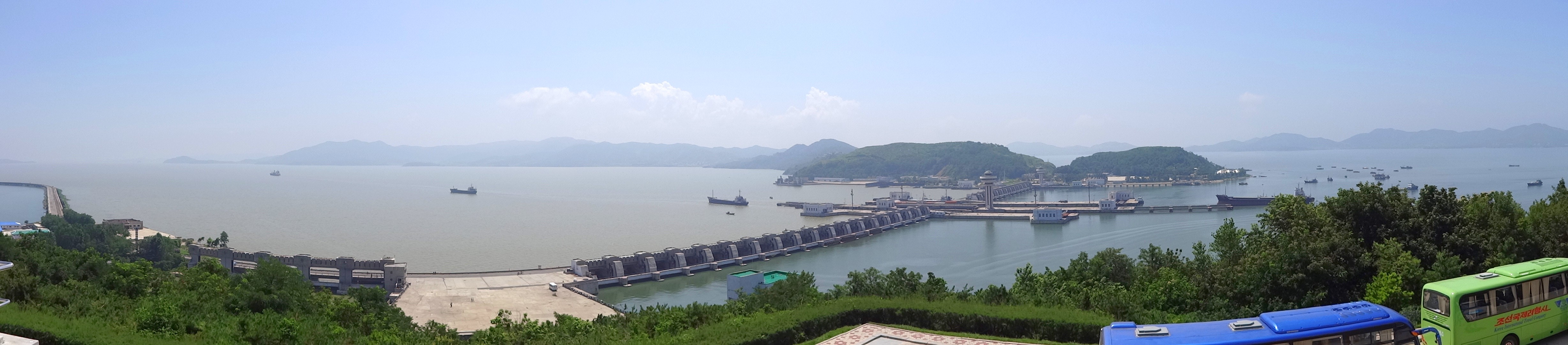 Panorama of Nampo Dam taken from the roof of the visitor center; looking inland along Taedong River